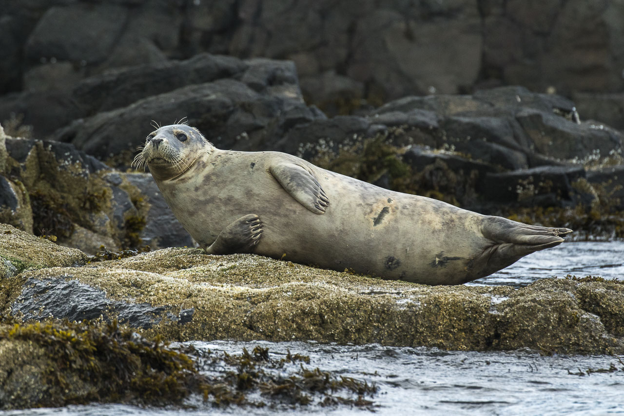 Grey Seal - Farne Is - FJ0A6712